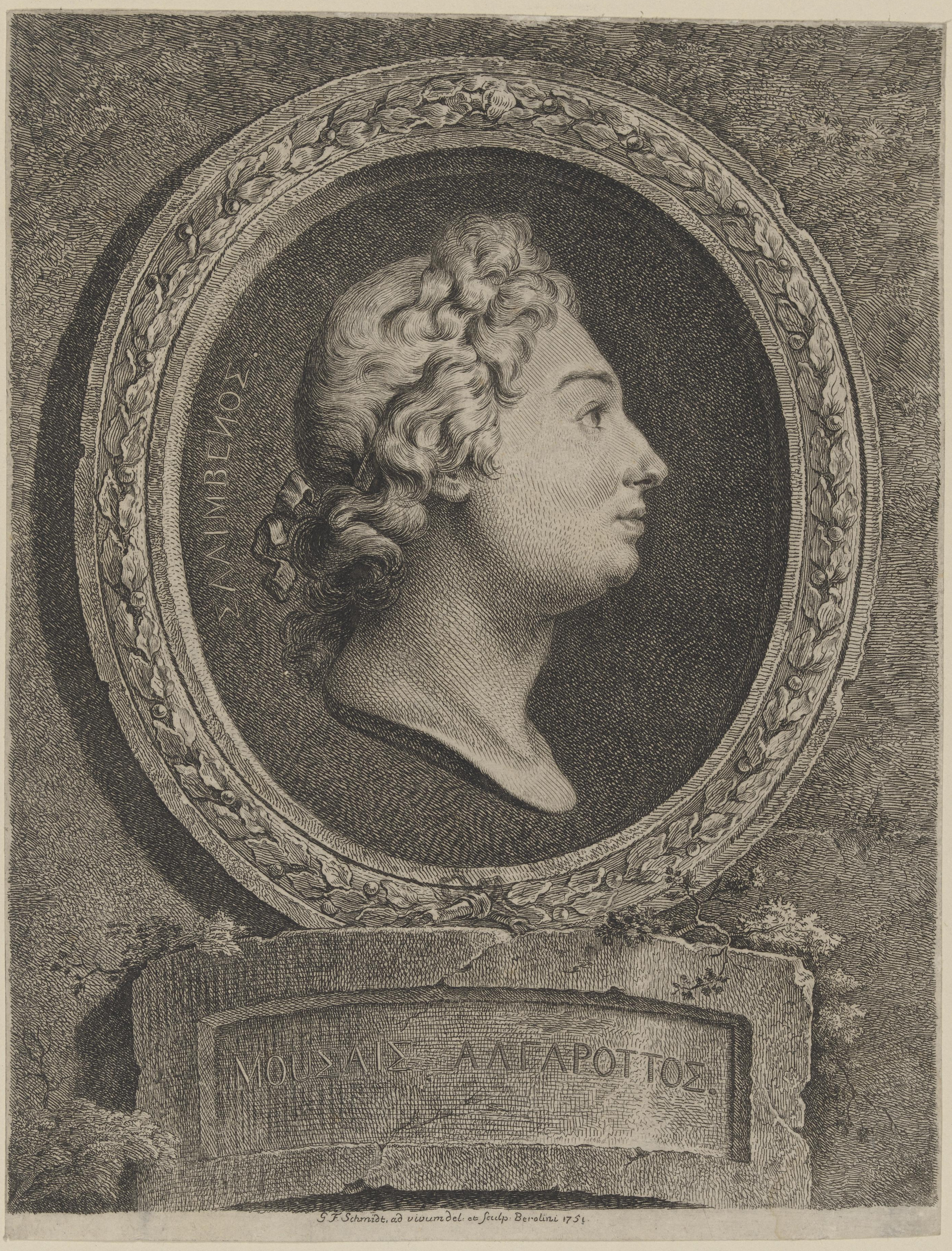 Depicted person: Felice Salimbeni